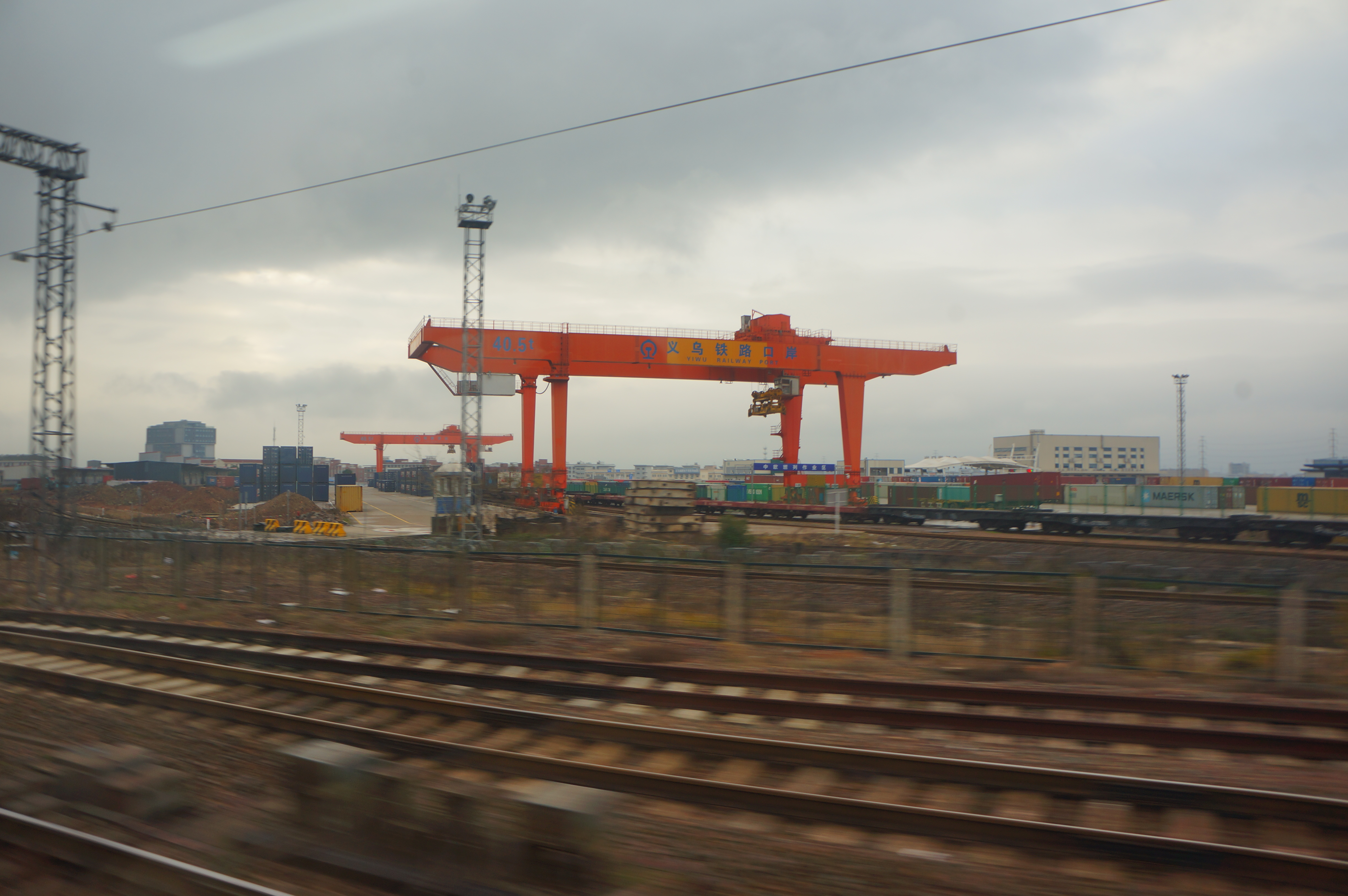 201901 Yiwu Railway Port at Yiwuxi Station